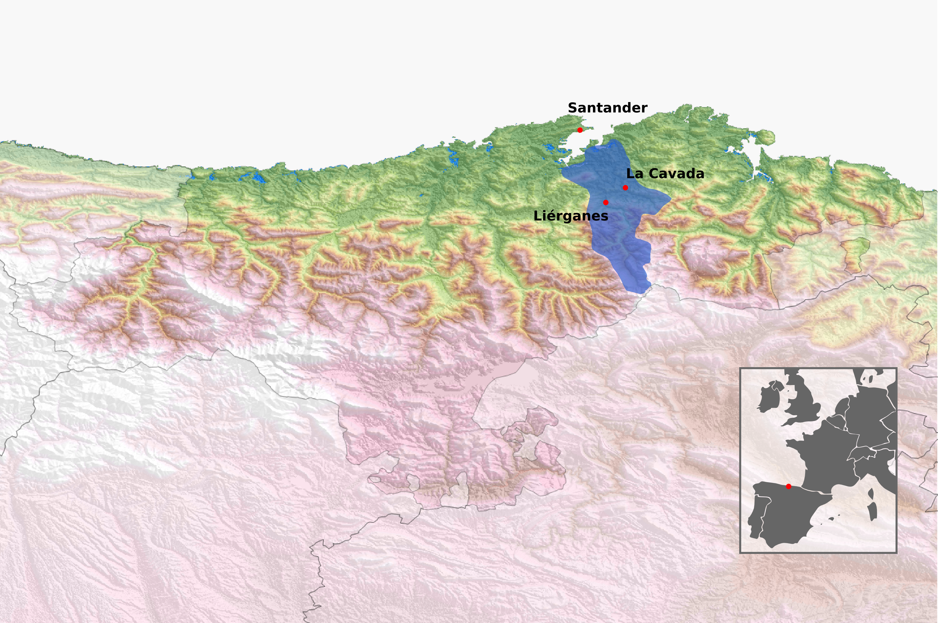 Situation of Real Factories of Artillery of Liérganes and La Cavada, in the autonomous community of Cantabria (Spain)